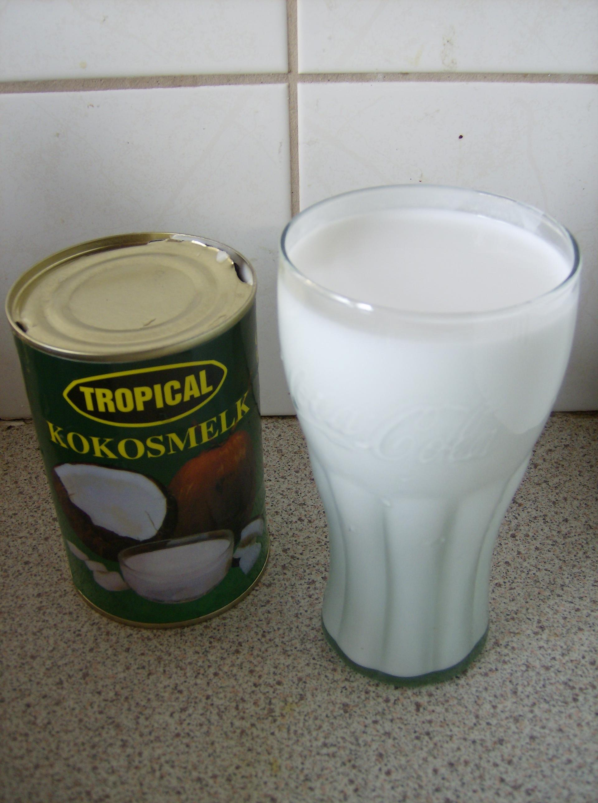 Coconut milk from can